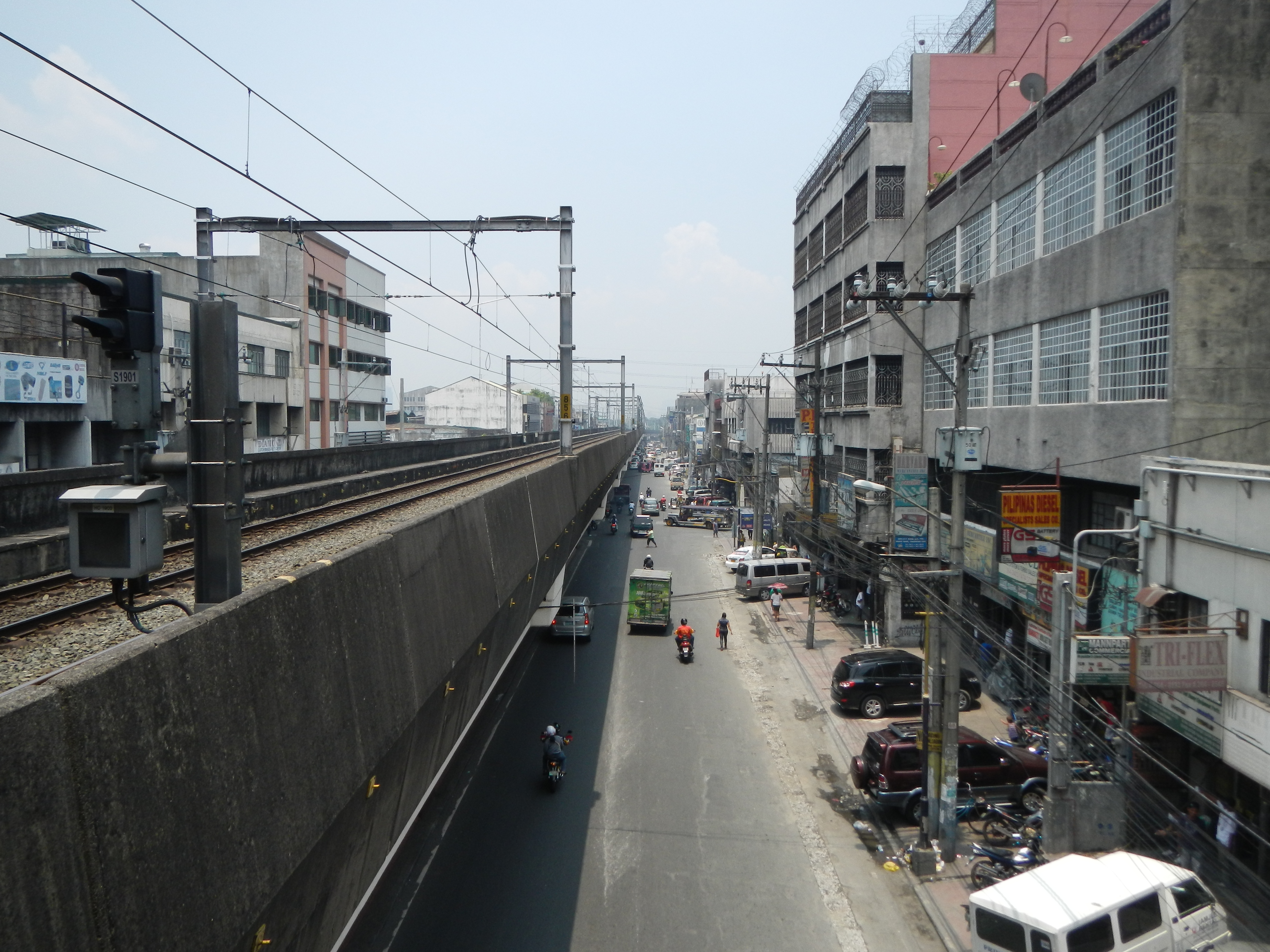 5th Avenue LRT Station[1]; ---------[N.B. Photography of Rosario, Cavite[2]: 30% cloudy and 70% sunny weather using my Nikon AW 100 waterproof shockproof camera. From Bulacan at 9:35 a.m., I took photo of the Baliuag Transit Original station, and at 11:38 a.m., the 5th Avenue LRT Station[3]; then I arrived at Rosario, Cavite and captured Noveleta Battle bridge at 2:08 pm, and then the Salinas Town or Rosario, Cavite at 2:33 pm and finished photography at 7:04 pm, and arrived at Bulacan at 11:30 pm after 4+ hours of travel by bus, and started uploading via slow internet at 11:40 pm - I hereby certify that these raw, original and unedited photos are exclusive for Commons and Wikipedia never uploaded in any Internet or any site, and for the public domain without any condition.]